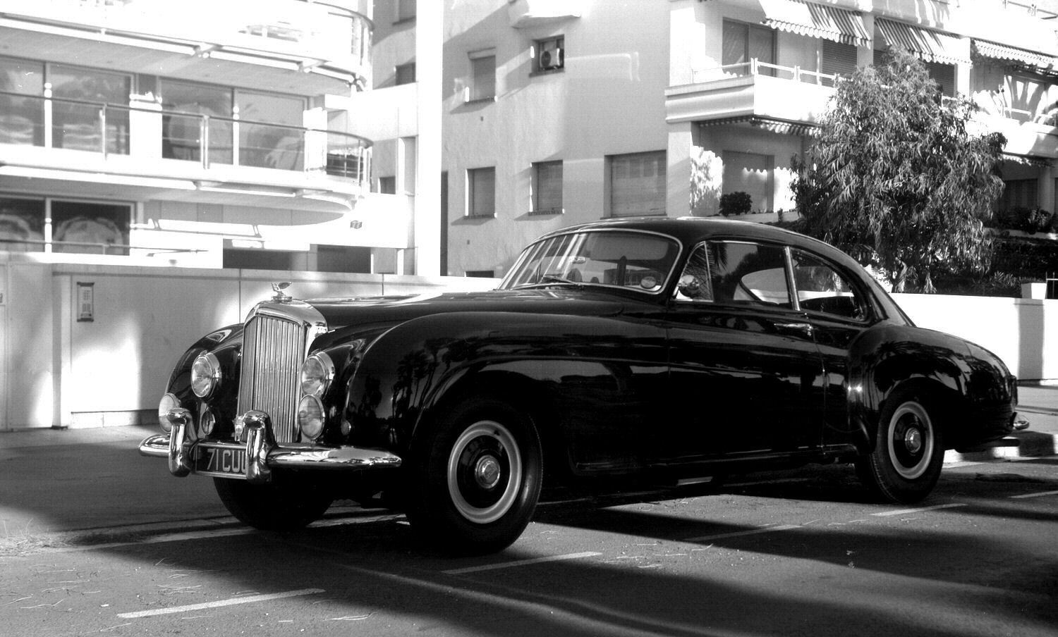 Bentley S1 Continental Fastback Coupé Mulliner Bodyworks.